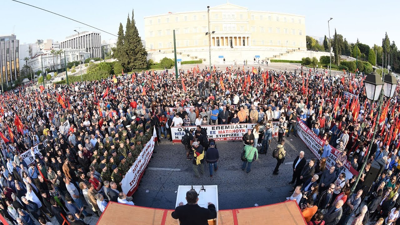 Protest in the center of Athens against the U.S.-led strike